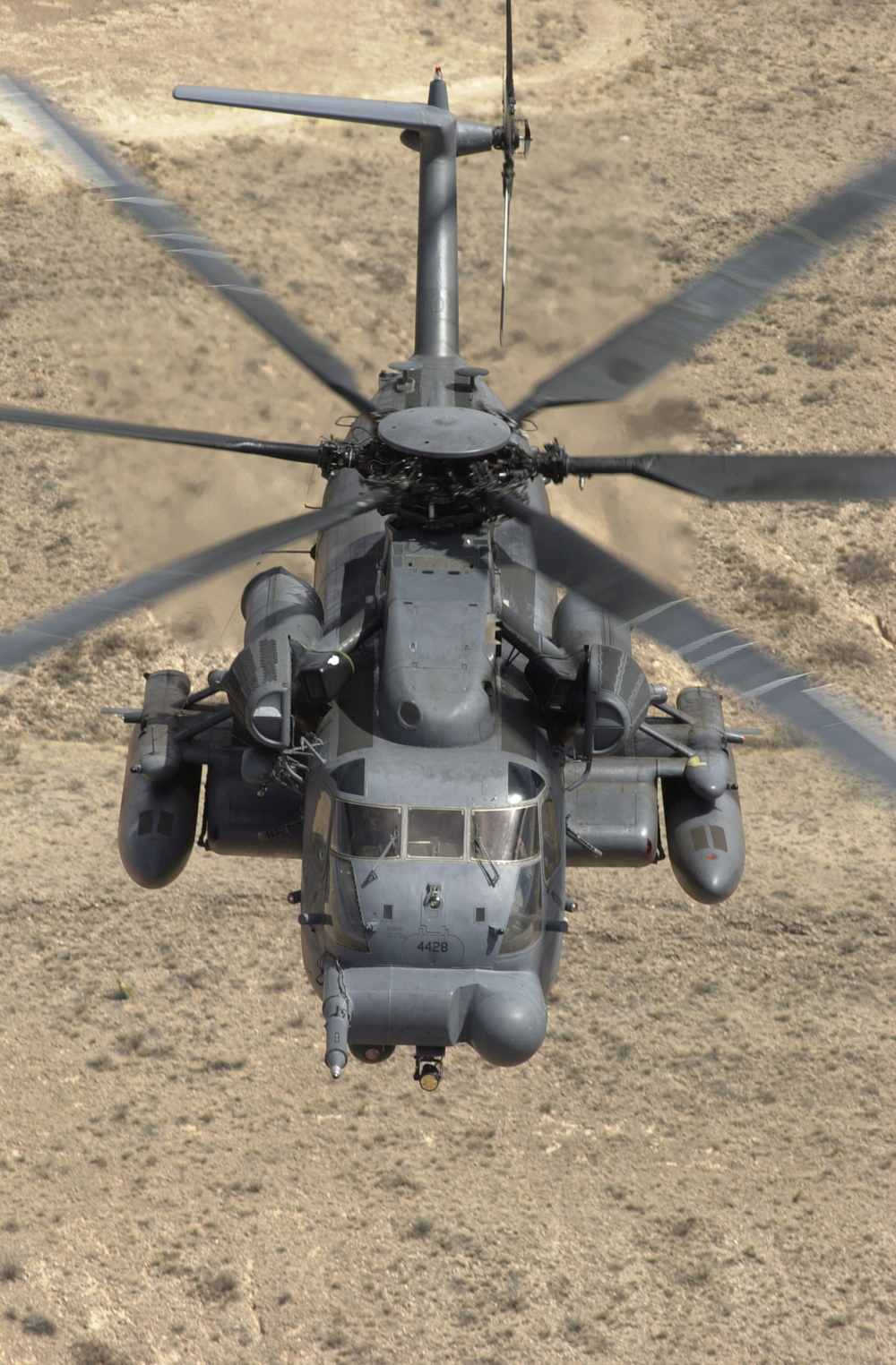 A 58th Special Operations Wing, 551st Special Operations Squadron, MH-53J Pave Low IIIE flies a training mission near Kirtland Air Force Base, NM.